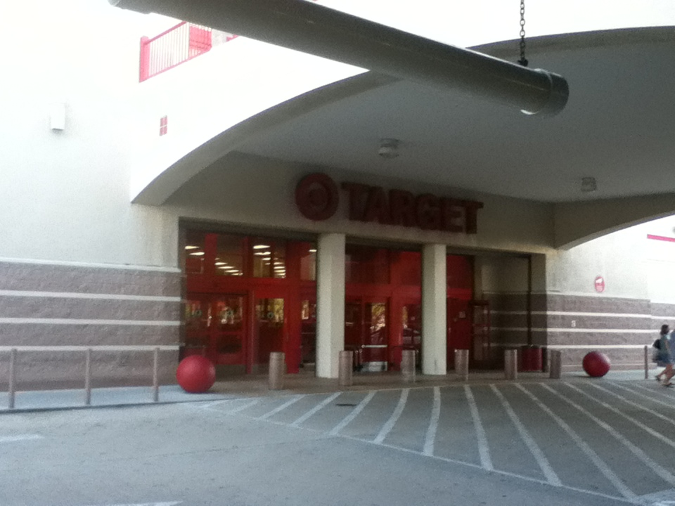 A Target store located on Federal Highway in Fort Lauderdale Florida